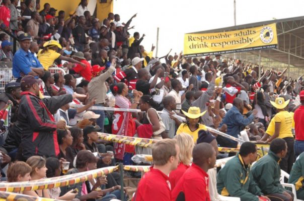 Spectators at the annual Safari Sevens at the RFUEA Ground